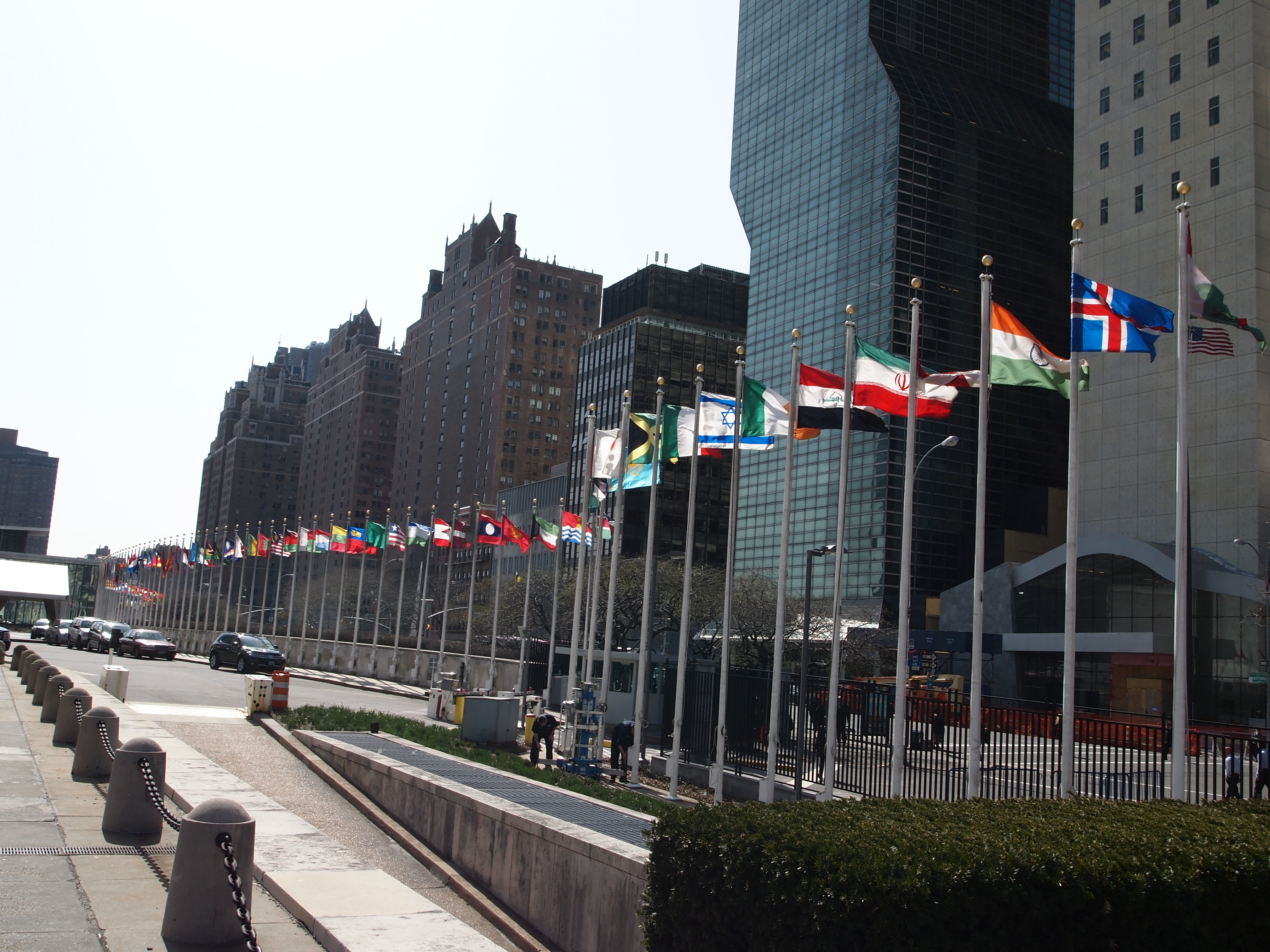 Flags at United Nations